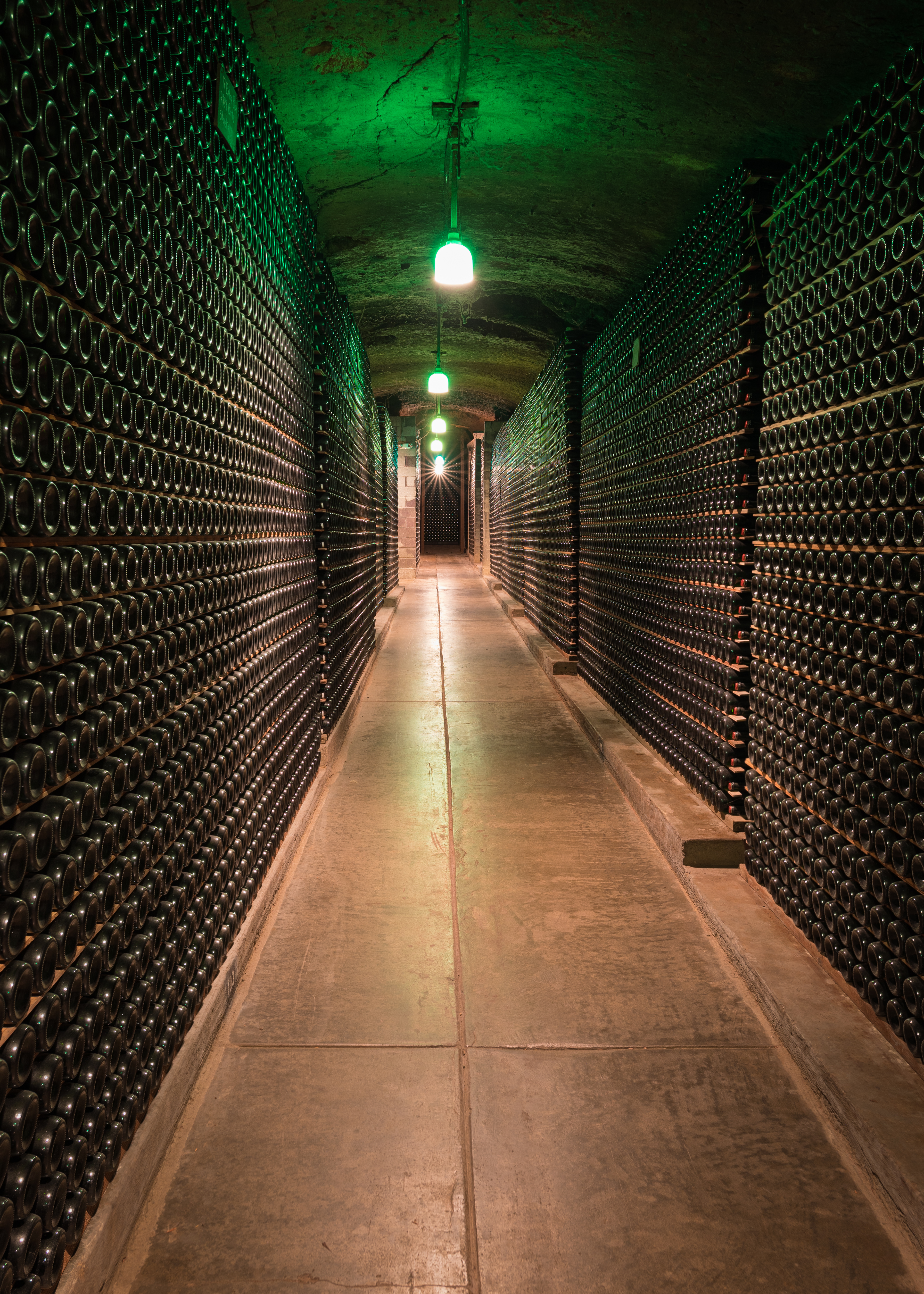 Wine cellar of Schramsberg Vineyards, Napa Valley, California.